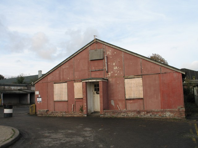 "Hut 3", Bletchley Park. Originally the home of the financier and Liberal MP, Sir Herbert Samuel Leon (1850-1926), the Bletchley Park estate passed out of the Leon family in 1937. During World War II the estate became the site of the UK's main decryption effort, becomming known as Station X. It was here that the codes and ciphers of several Axis countries were decrypted, most important being the ciphers generated by the German Enigma and Lorenz machines. Some 9,000 people were working at Bletchley Park at the height of the codebreaking efforts, many of the teams being housed in temporary huts designated by numbers - Hut 6 housed the team tasked with the breaking into German Army and Air Force Enigma enciphered wireless traffic. The adjacent Hut 3, shown here, handled the translation and intelligence analysis of the raw decrypts provided by Hut 6. See also . . . . 1592906; 1592914; 1593071; 1592862; 1592868; 1592873